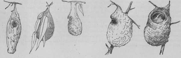 Grey Gerygone (Gerygone igata, cat.) Nest